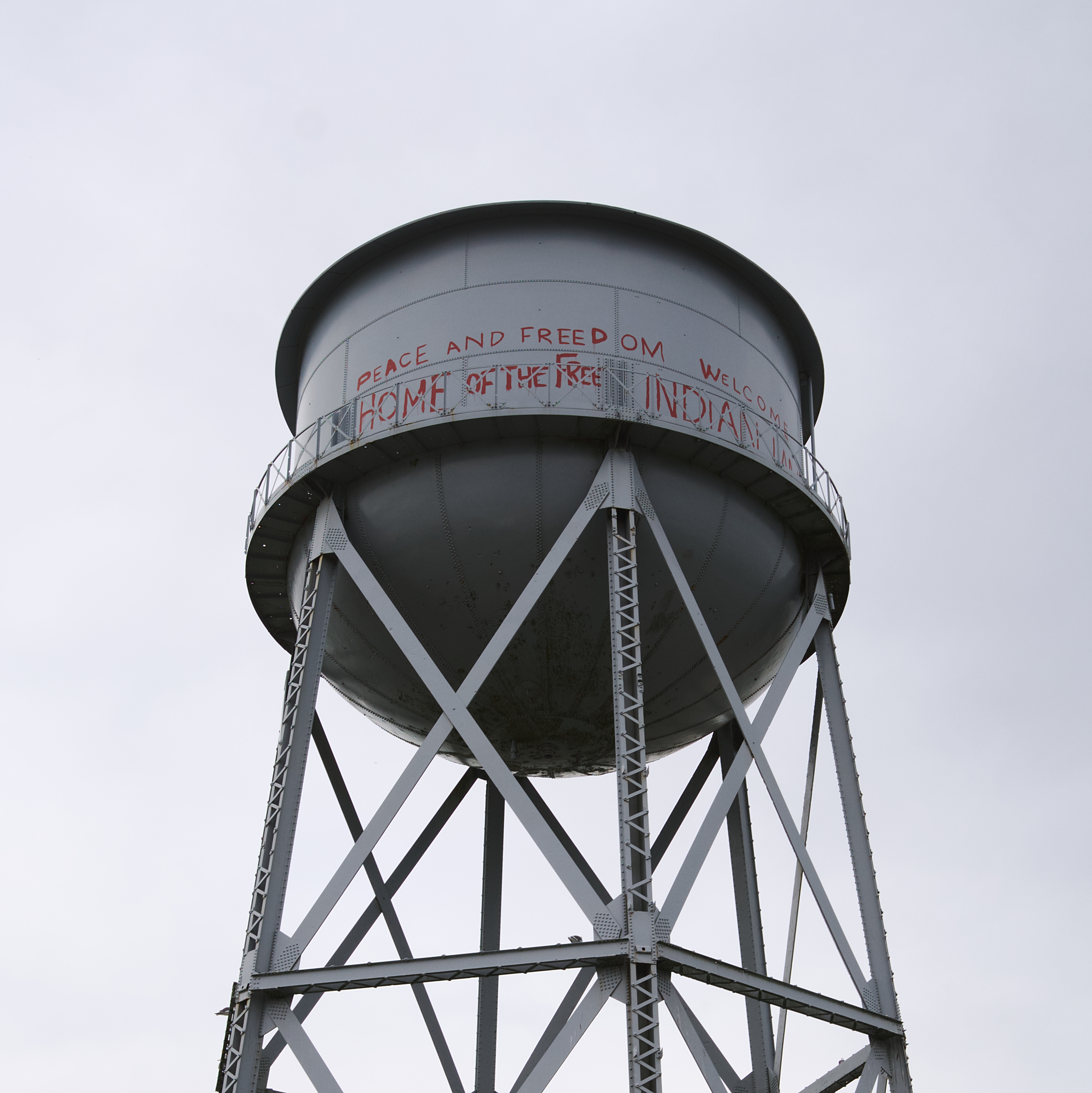 Detail of the Alcatraz Water Tower as seen in 2017. Built in 1940-1941, the tower was repainted in 2012.